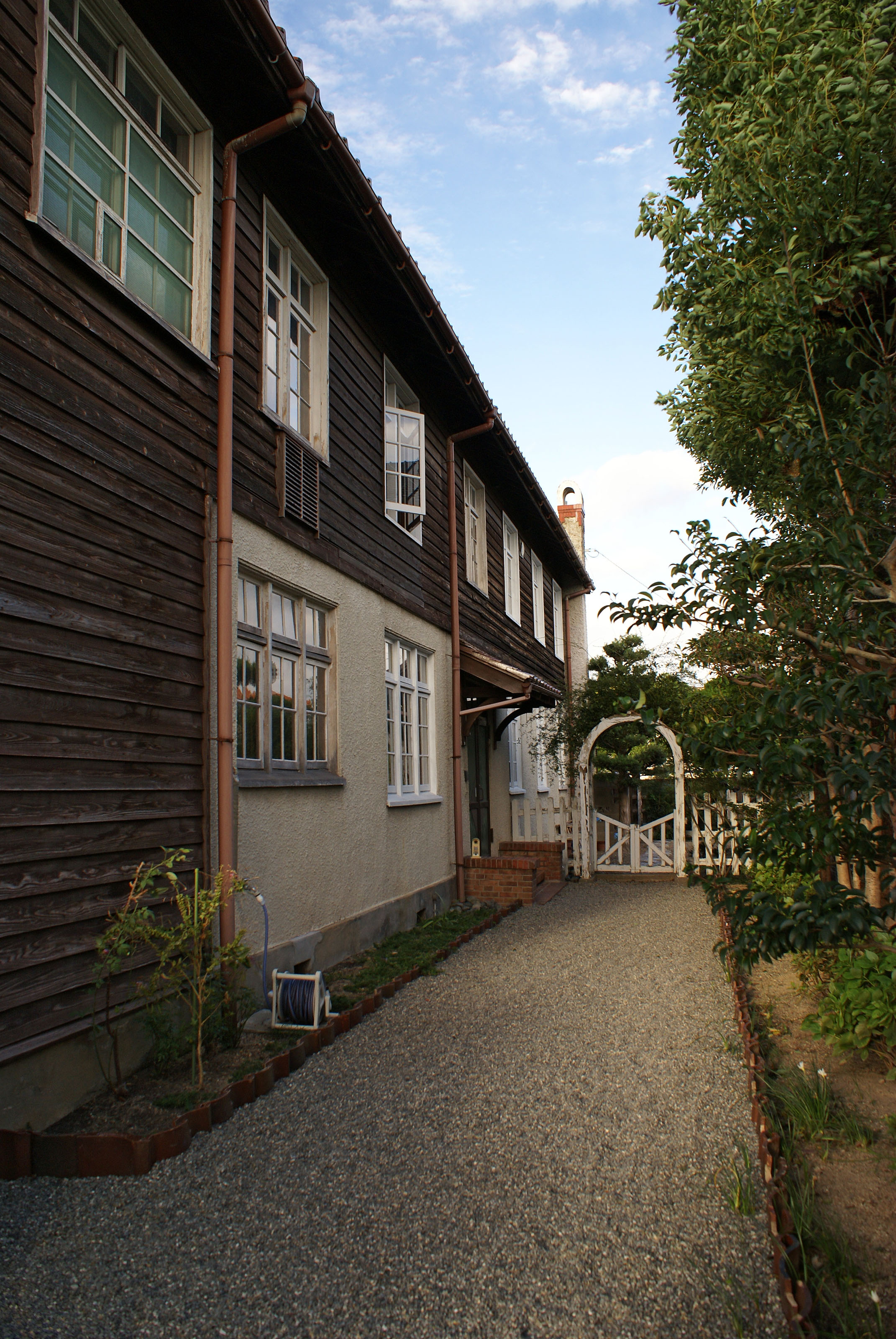 Vories memorial hall in Omihachiman, Shiga, Japan